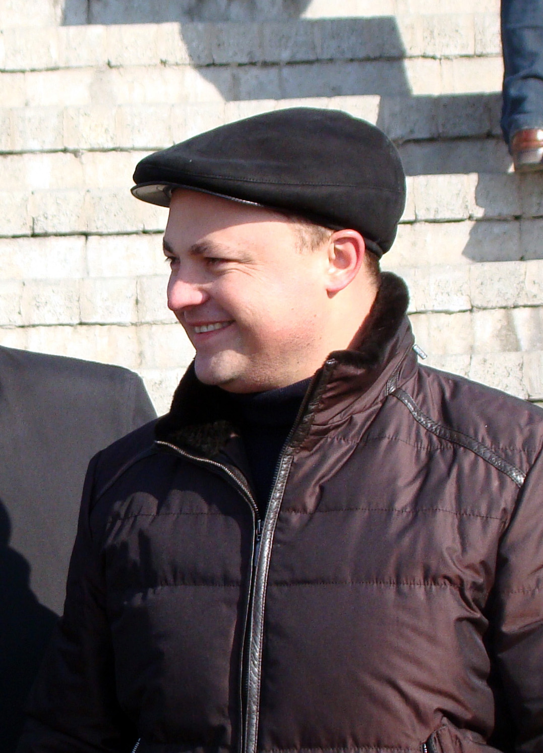 Igor' Poushkaryov, mayor of Vladivostok City (Russia)